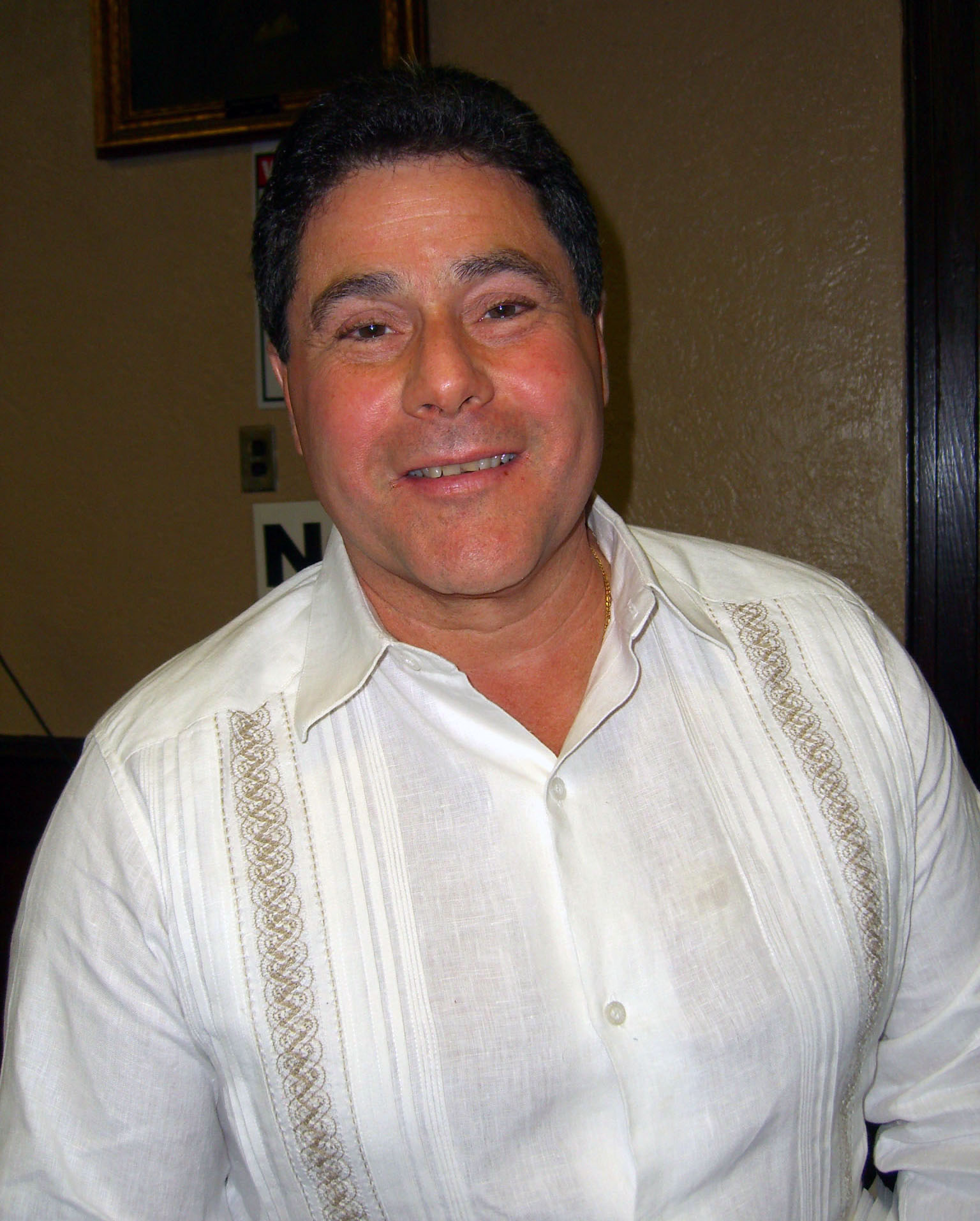 West New York, New Jersey Mayor Doctor Felix Roque at a September 19, 2012 Board of Commissioners meeting at West New York City Hall. This photo was created by Luigi Novi. It is not in the public domain, and use of this file outside of the licensing terms is a copyright violation.